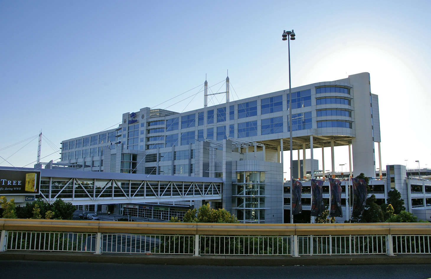 Hilton Hotel at Melbourne Airport. Melbourne, Victoria